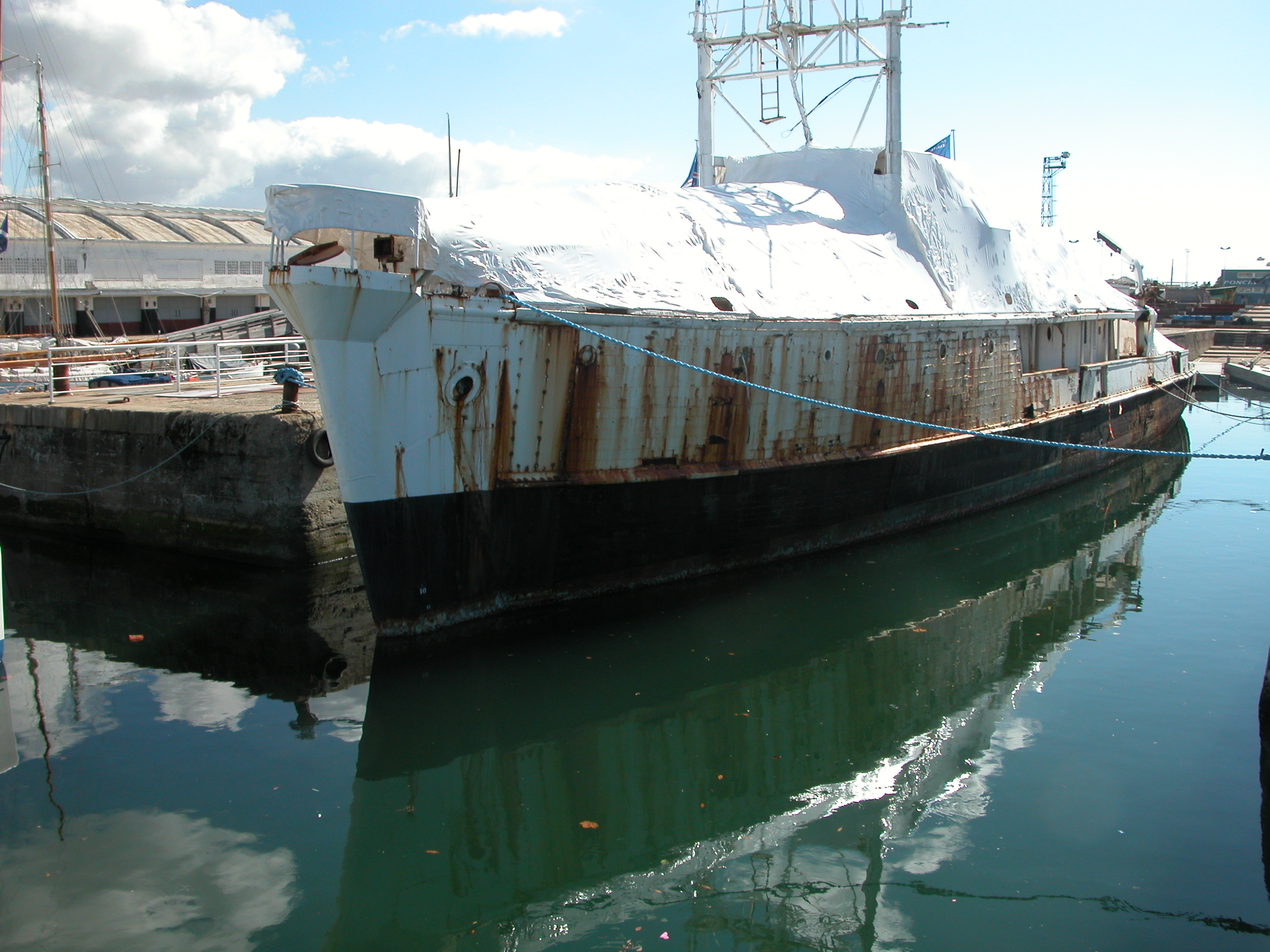 The Calypso at la Rochelle - Personal foto of user ByB